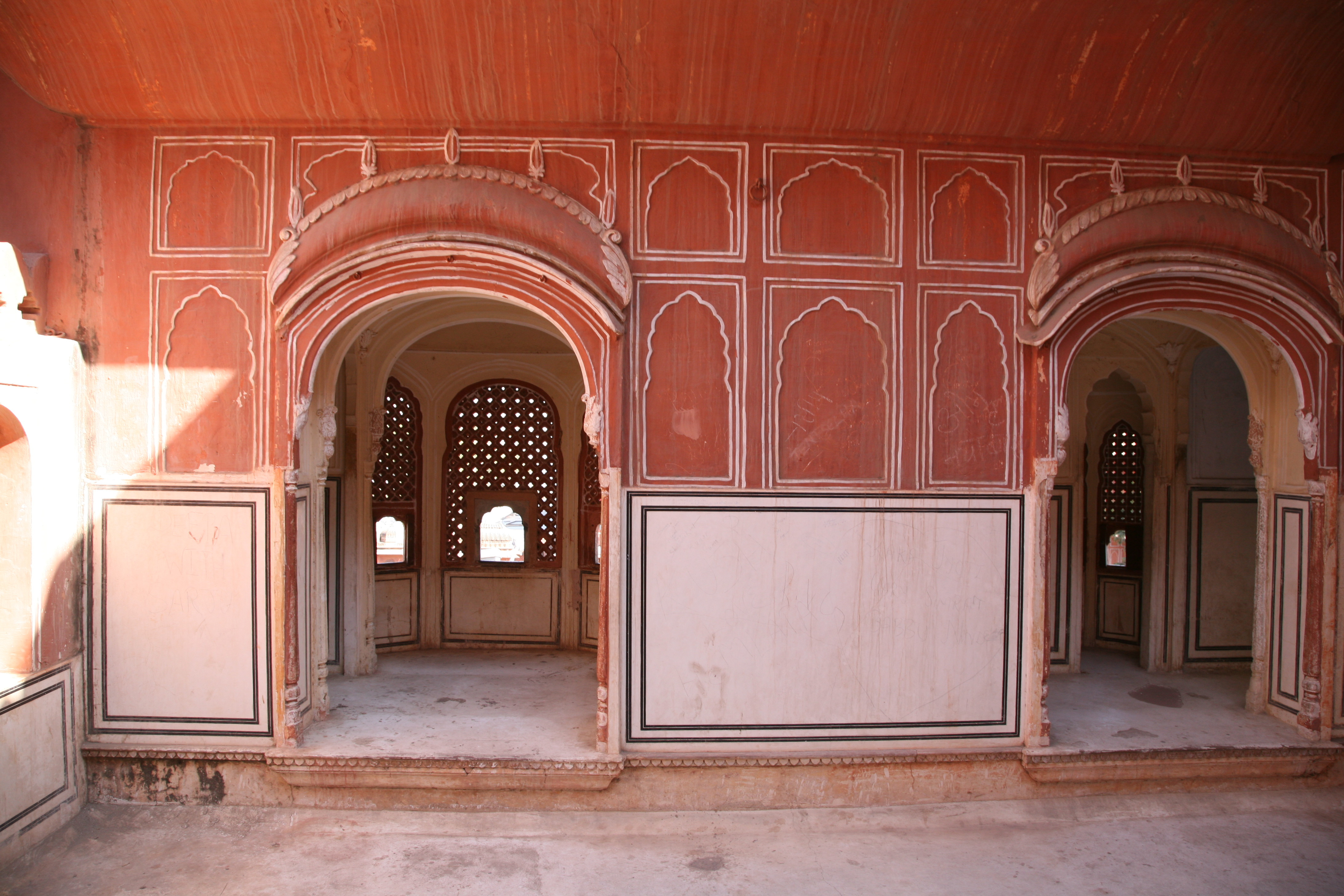 Hawa Mahal (Palace of Winds) in Jaipur. Inside.